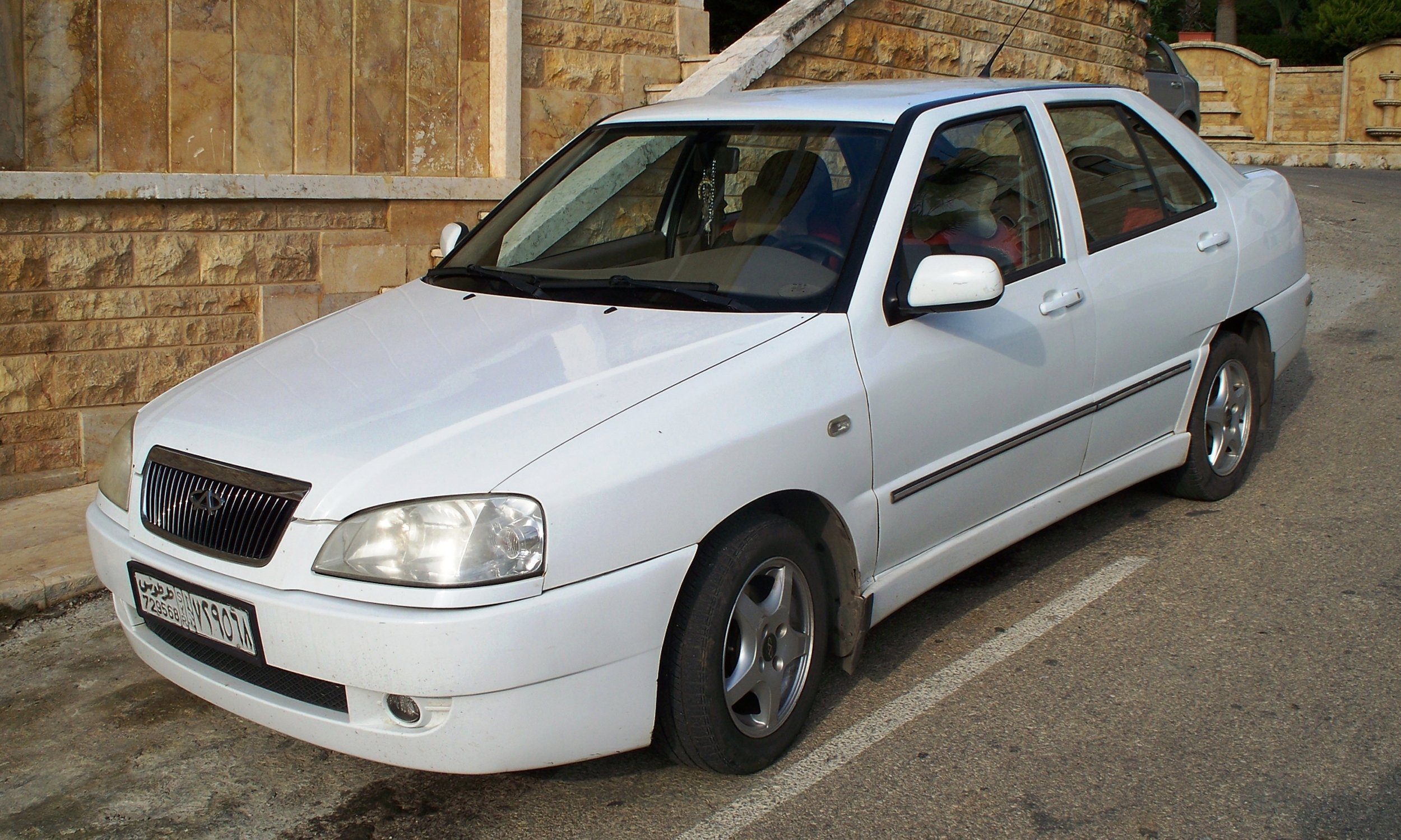 A Chery Amulet in Syria.